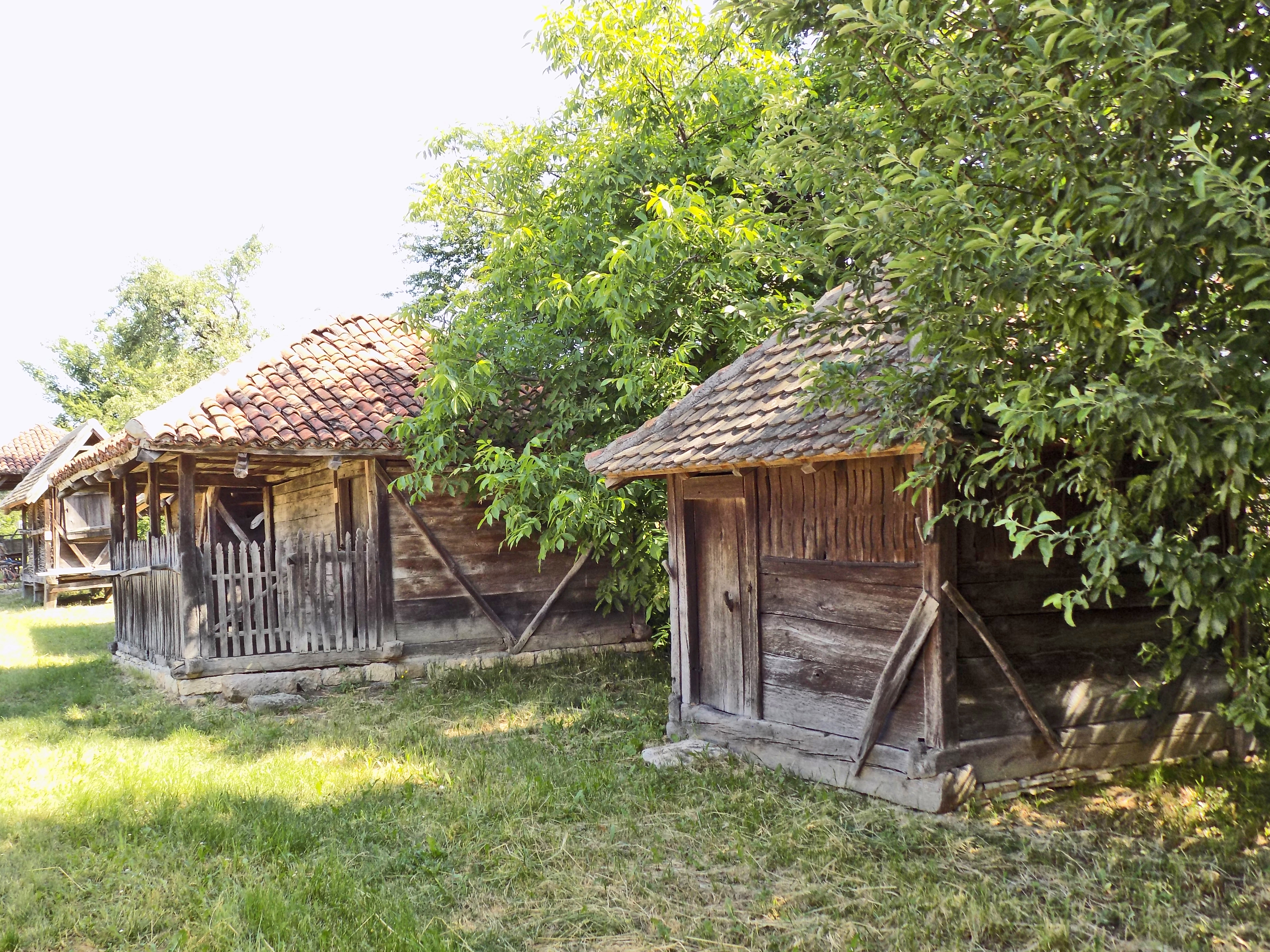 House of the Matic family - Agricultural facilities in the backyard